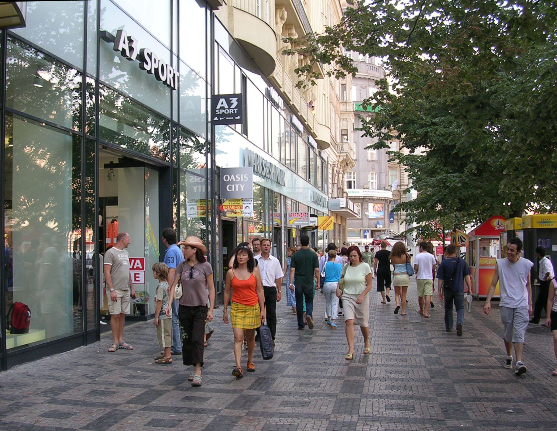 New Town, Prague, the Czech Republic. Wenceslas Square. A sidewalk.